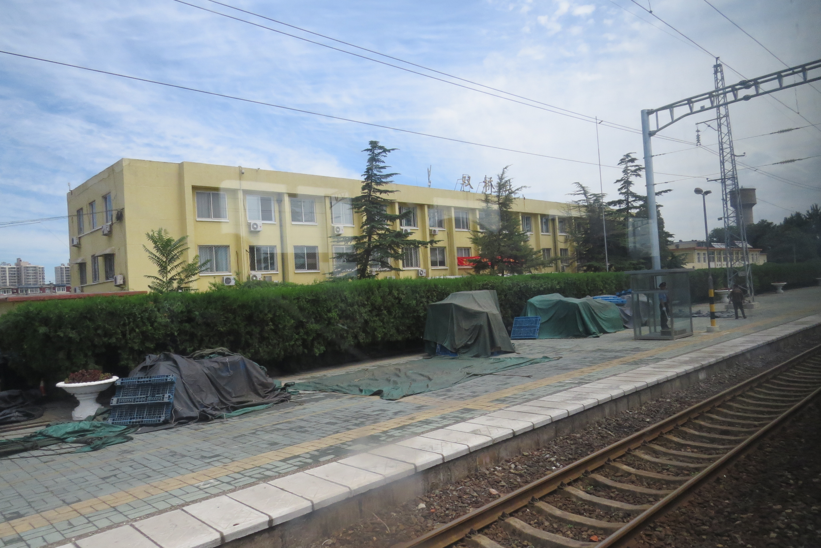 Taken from 6461. After all, no passenger trains stop here.